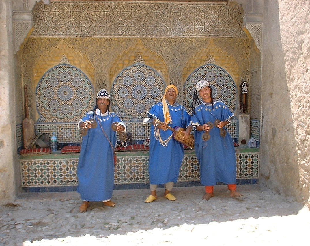 Image of traditional Moroccan musicians in Tangier.